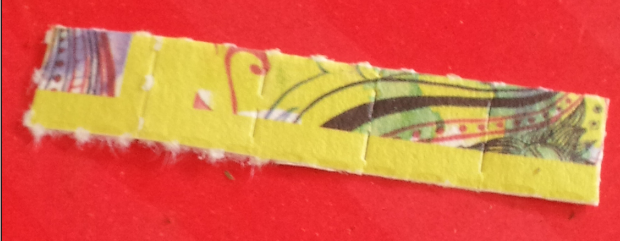 Rated at 100 micrograms each.